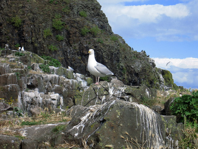 Guano, Fidra. Fidra is home to Guillemots, Razorbills, Herring Gulls and Puffins. The north east of the island was particularly crowded with Herring Gulls Larus argentatus.